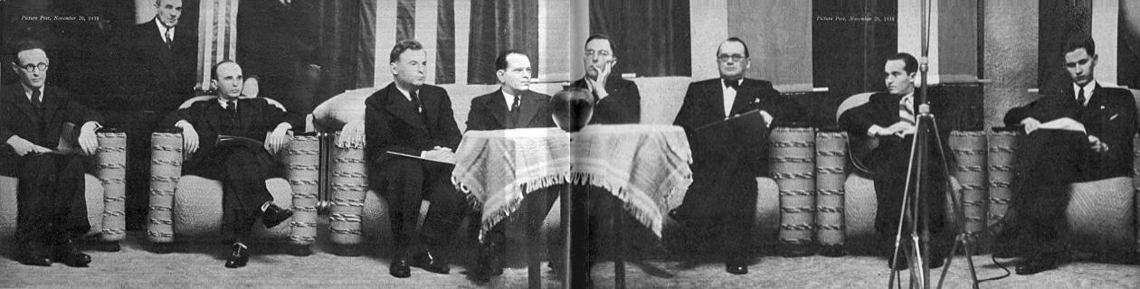 Participants of A. V. R. O. tournament